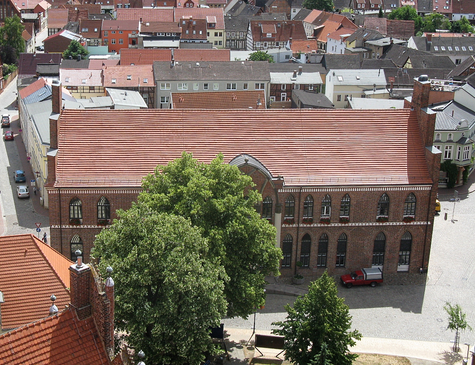 Town hall in Parchim, Mecklenburg-Vorpommern, Germany; view from tower of church St. Georg